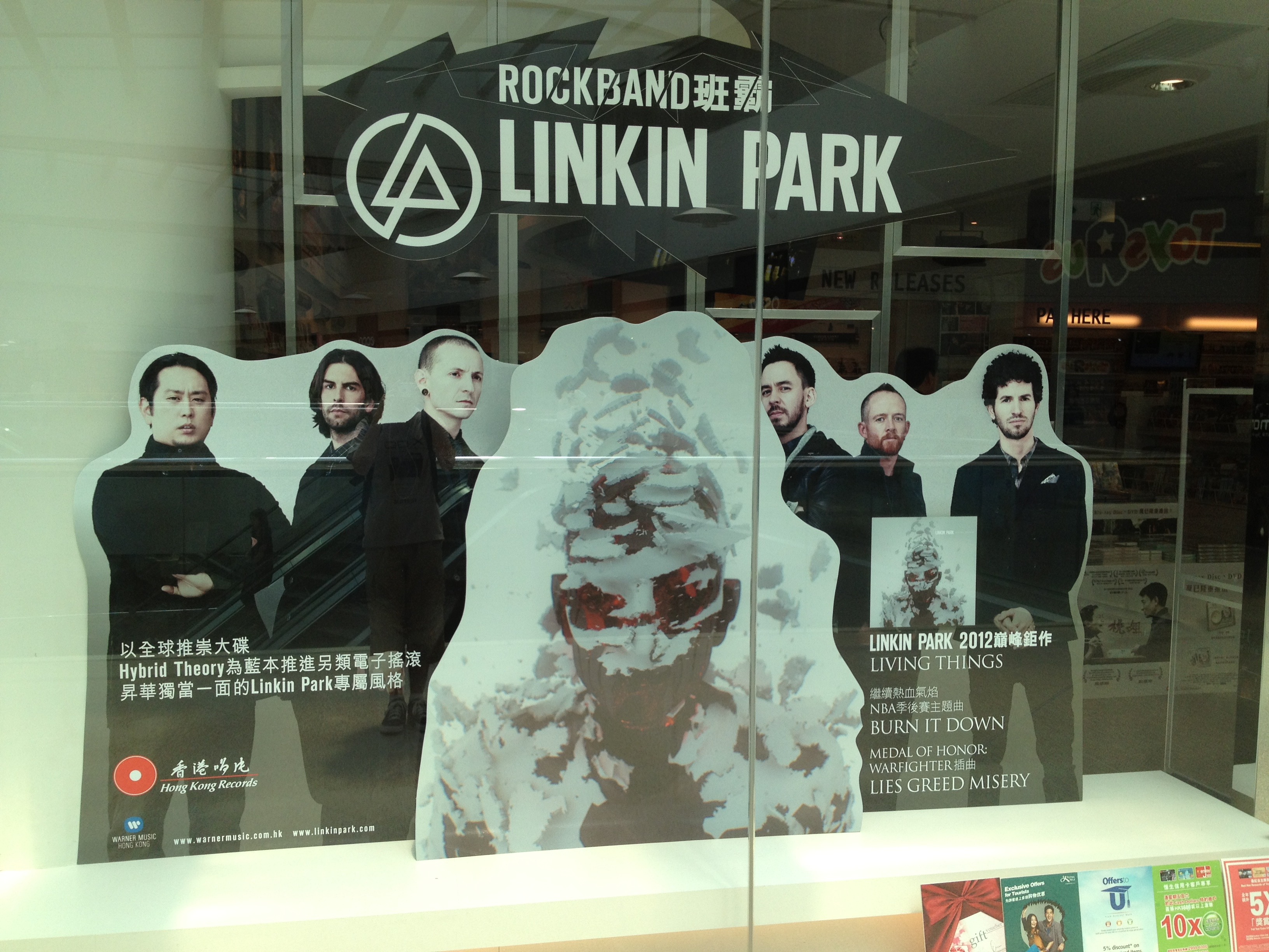 Promocion del disco de Linkin Park en China [Living Things]